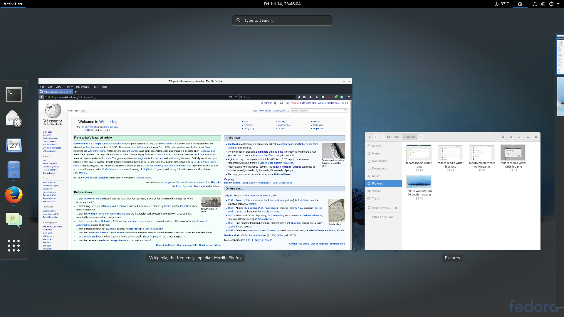 A screenshot of Fedora 26 Workstation using the GNOME desktop interface. The GNOME shell version is 3.24 that ships with Fedora 26. The interface is in American English.